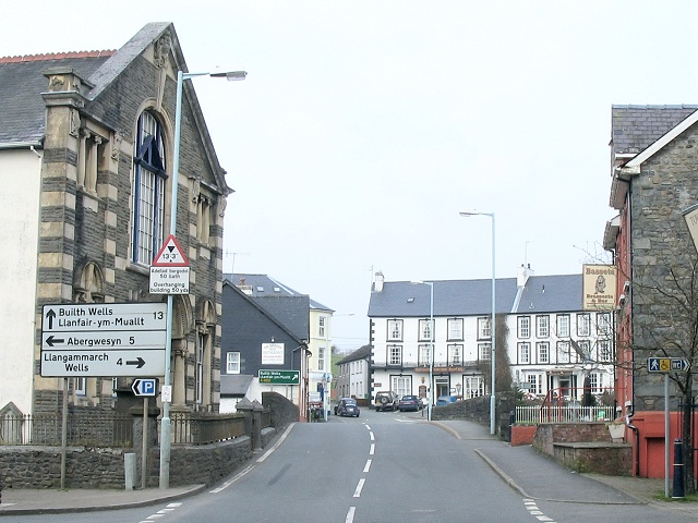 Llanwrtyd Wells Looking northeast into the centre of the town. The rise in the road is the bridge over the river Irfon.